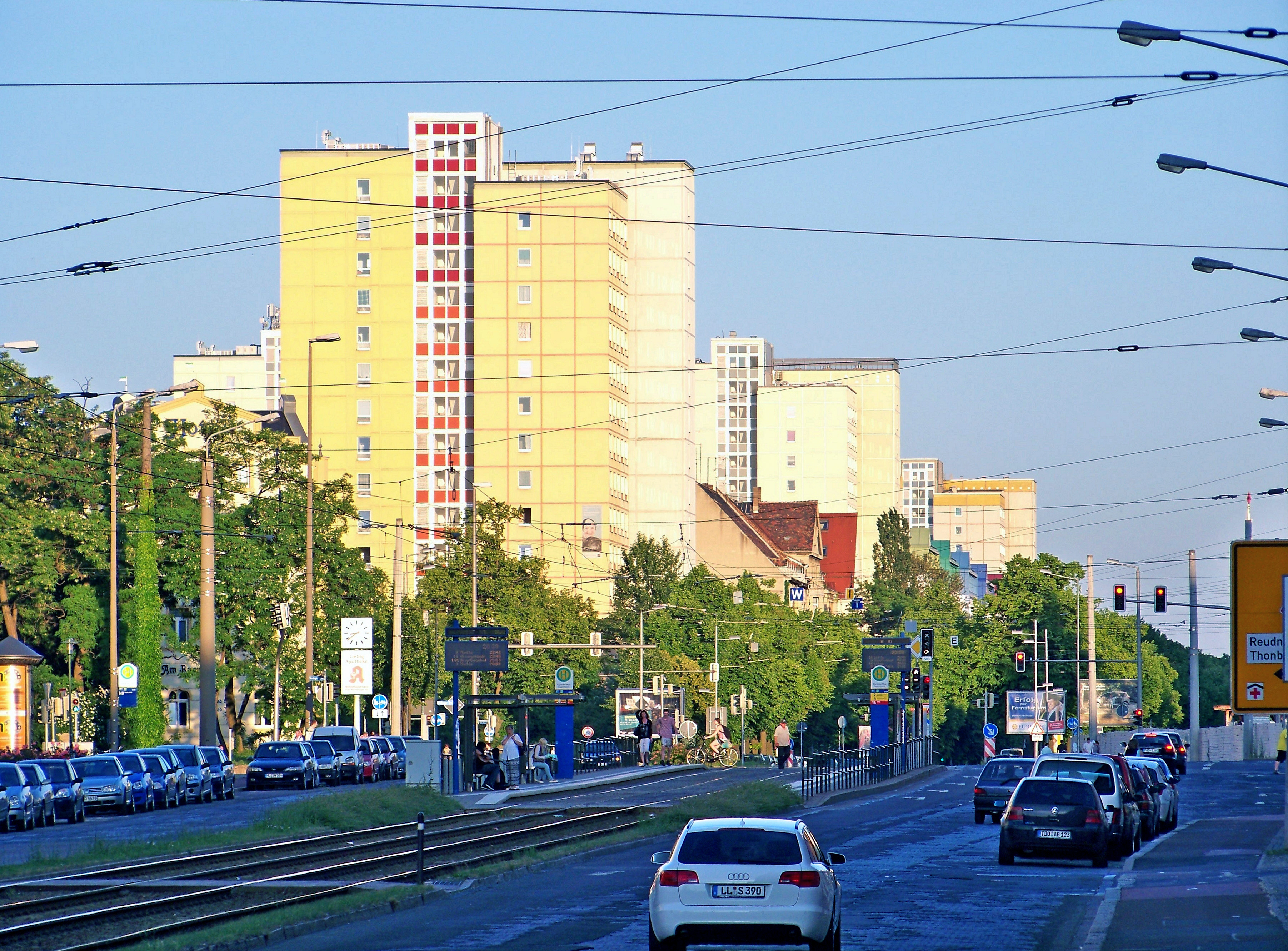 Blick von der Windmühlenstraße/Ecke Grünewaldstraße in Richtung Straße des 18. Oktober über den Bayerischen Platz hinweg, mit vier Plattenbauhochhäusern des Typs PH16